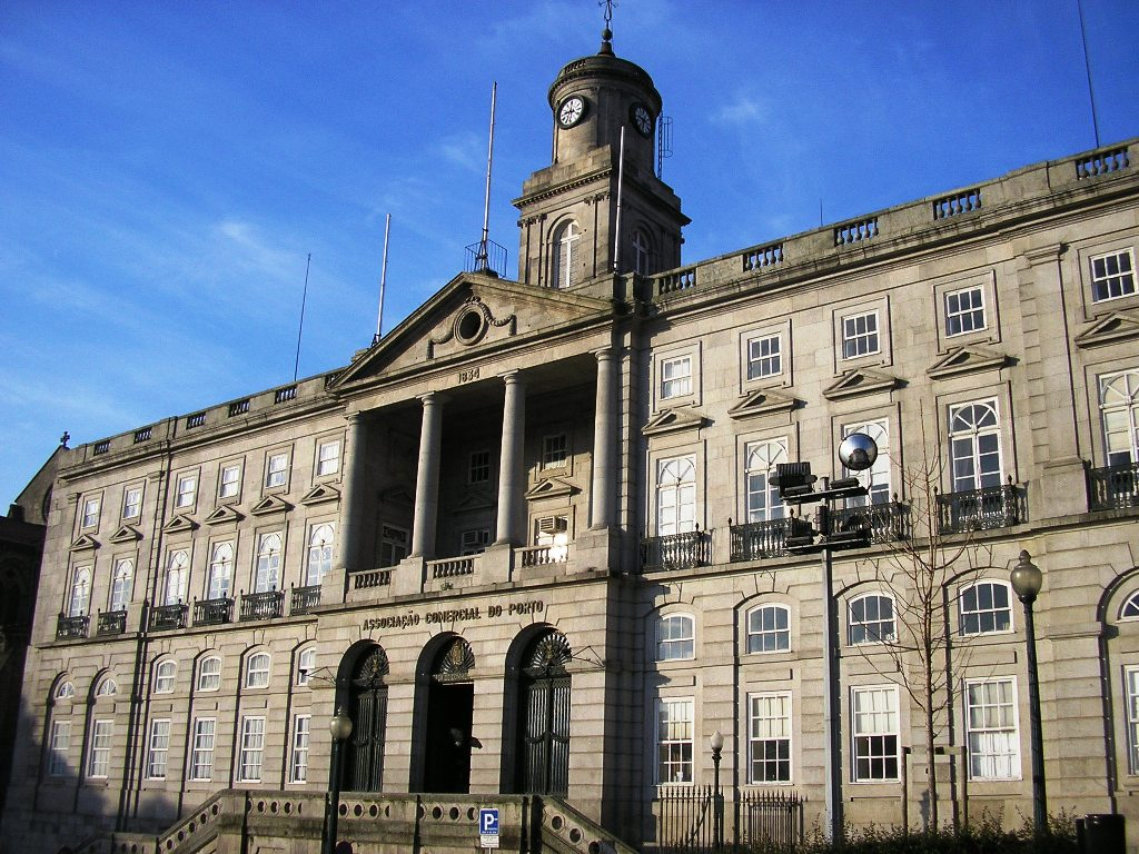 "Bolsa" palace in Porto, Portugal. Author: Manuel de Sousa.